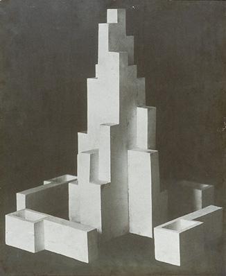 Design monument Leeuwarden. Photo. 50.5 × 30 cm. Eindhoven, Van Abbemuseum (inv.no. AB5090).